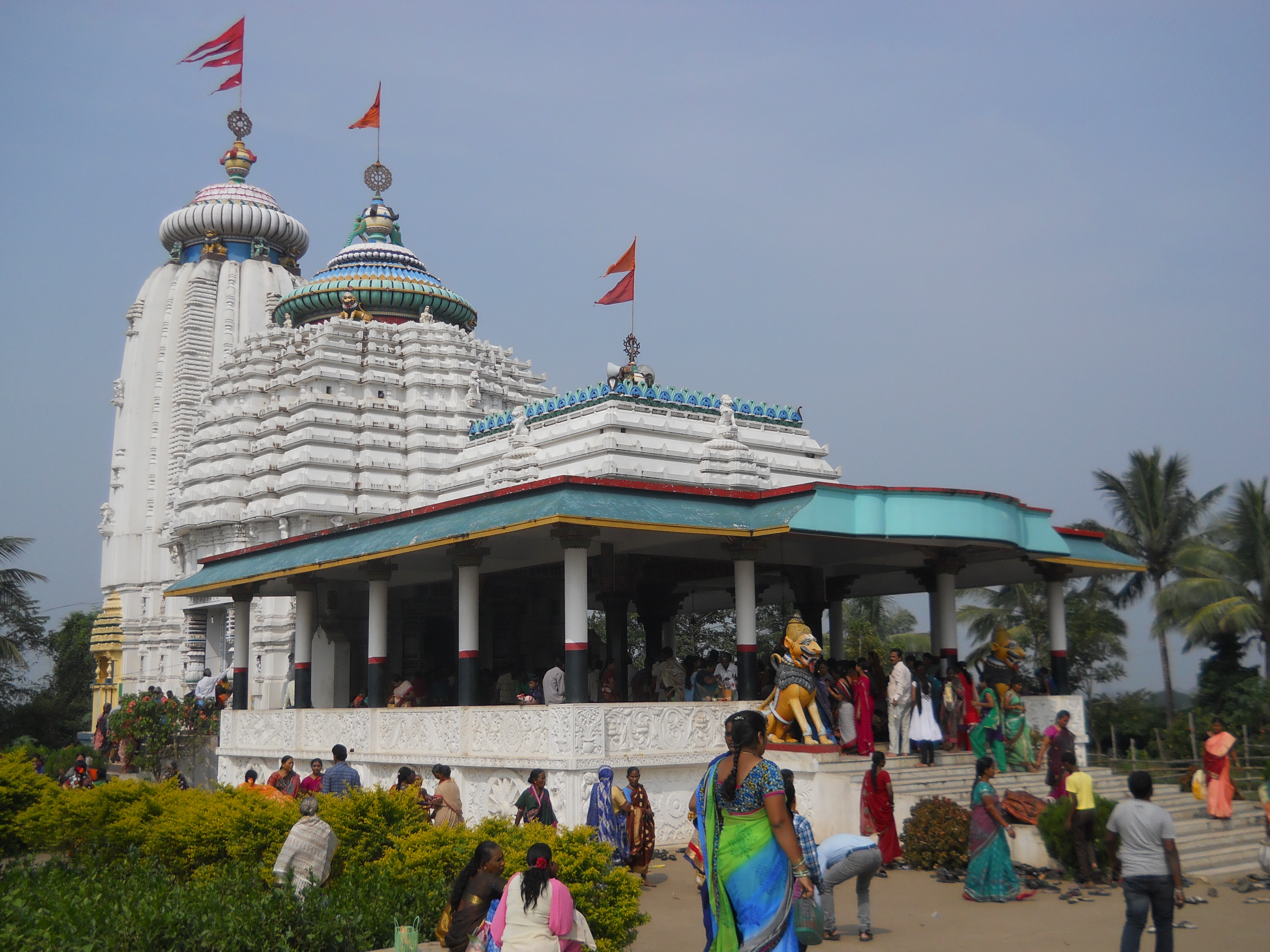 The Jagannath temple at Gunupur of Rayagada dist in a new look.